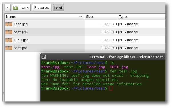 Case-sensitive file system in a Unix-like OS.